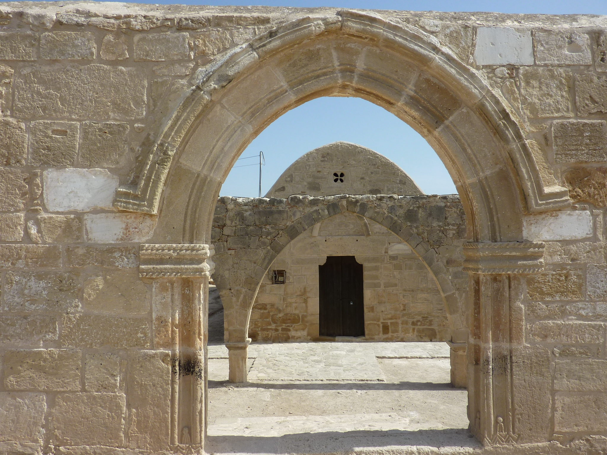 Panagia Katholiki, Kouklia, Cyprus